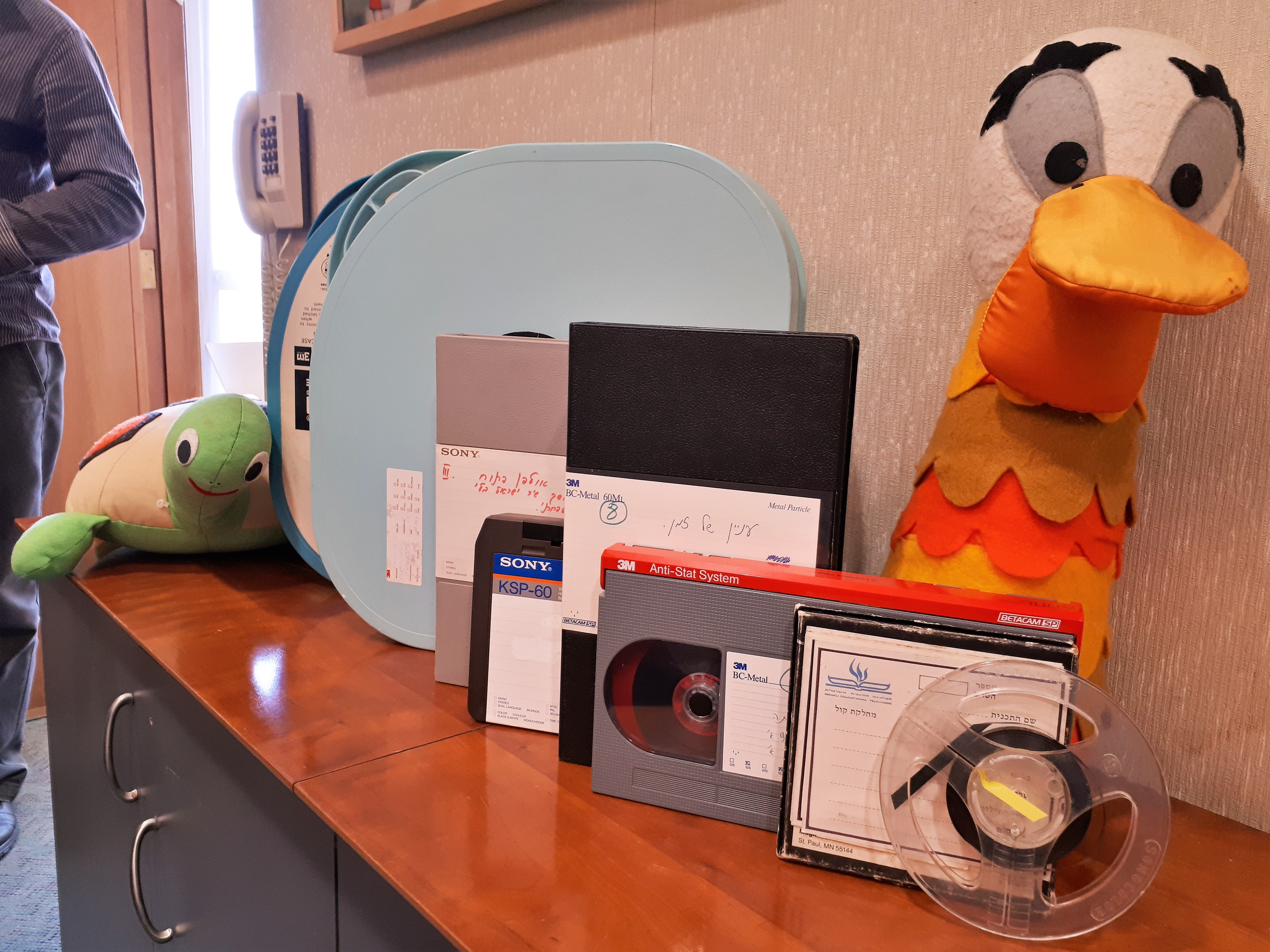 Inside the IETV building. Tel aviv, April 2018